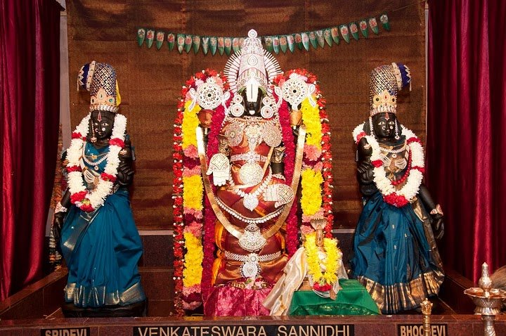 The picture was taken during Anniversary celebrations at Parashakthi Temple for Lord Venkateswara.